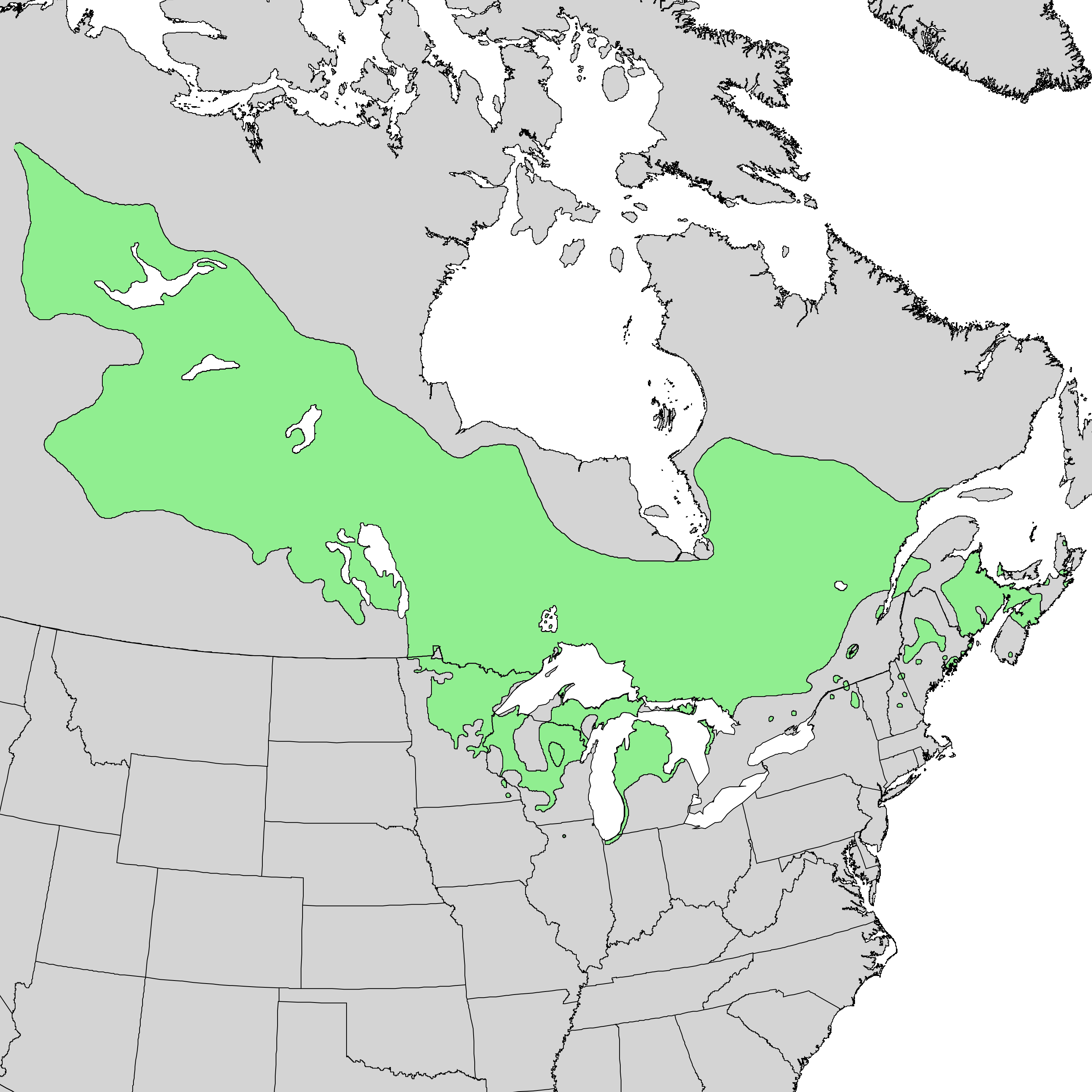 Pinus banksiana natural range map